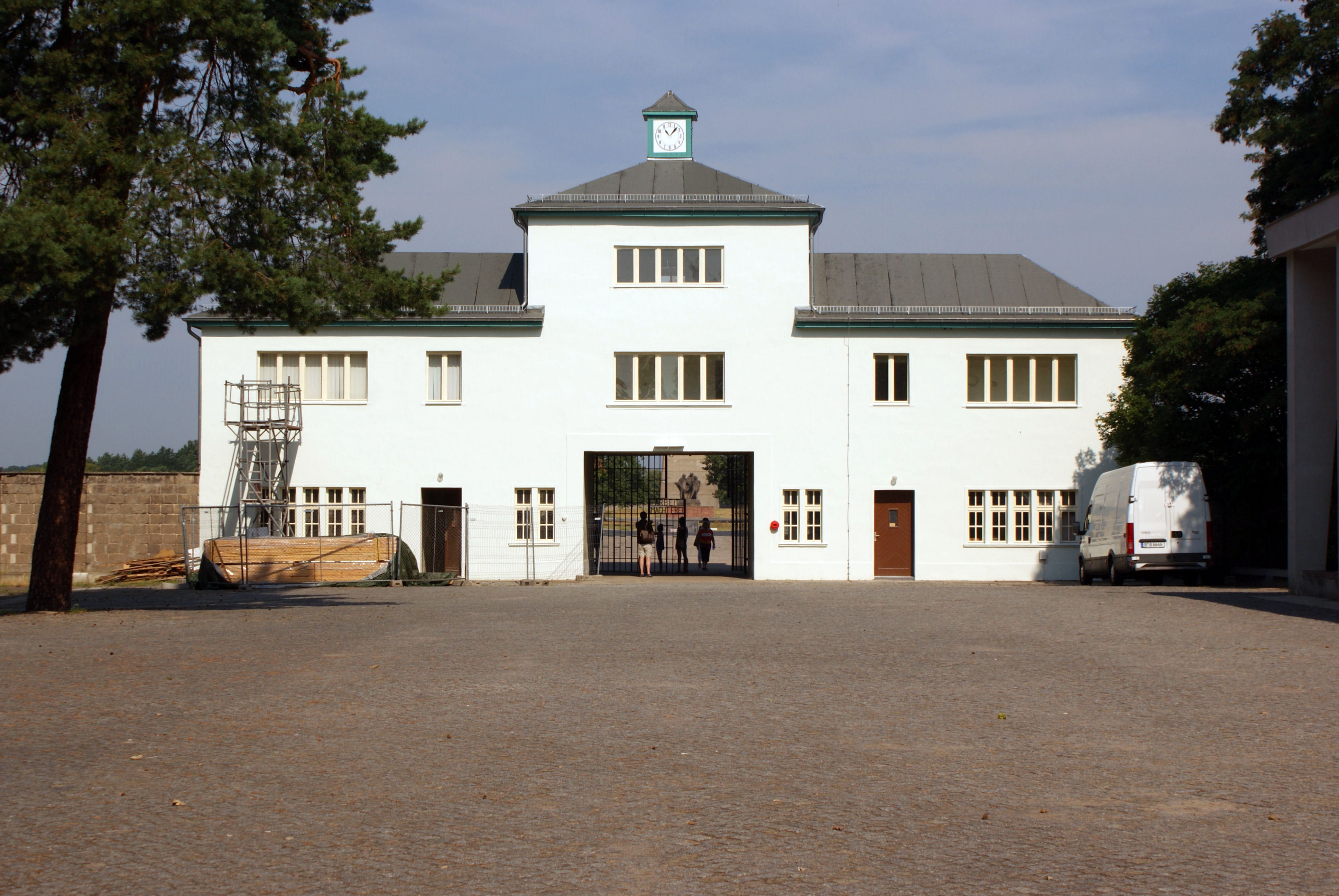 Sachsenhausen concentration camp Main entrance Oranienburg, Germany